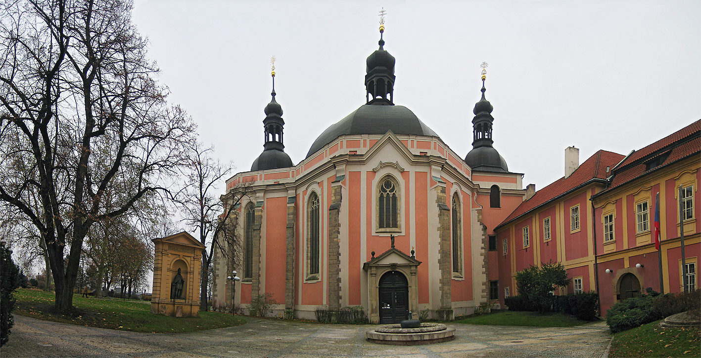 Church of the Virgin Mary and St. Charlemagne in Prague at Charles is significant, originally Gothic, Baroque and supplemented by the church. It is part of the premises of the former monastery of the Augustinian Canons in Prague at Charles. 50°4'7.683"N, 14°25'42.646"E